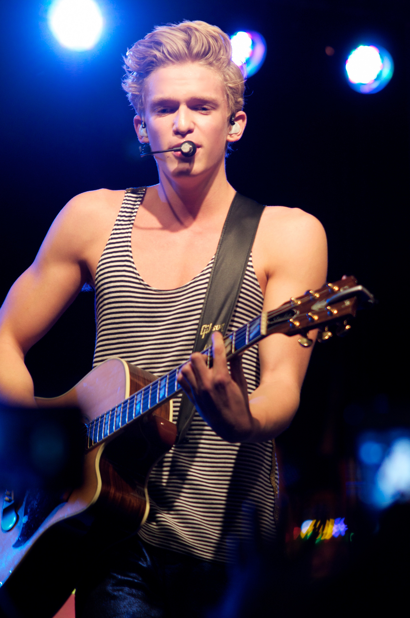 Australian musician Cody Simpson plays guitar and sings during the "Nevada Wild Fest" outside the Rio in Las Vegas, Nevada on October 25, 2012.